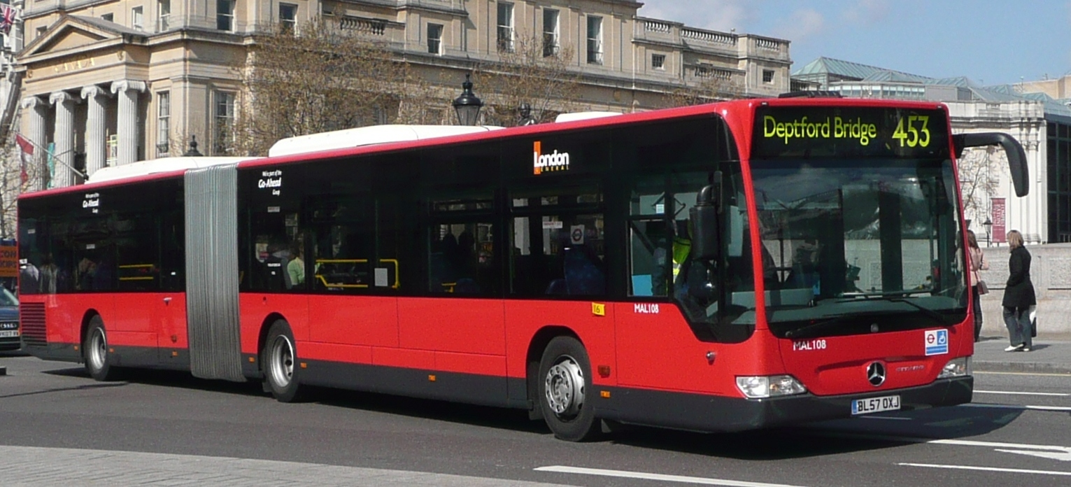 A London Central Mercedes-Benz Citaro on route 453 in London's Trafalgar Square.